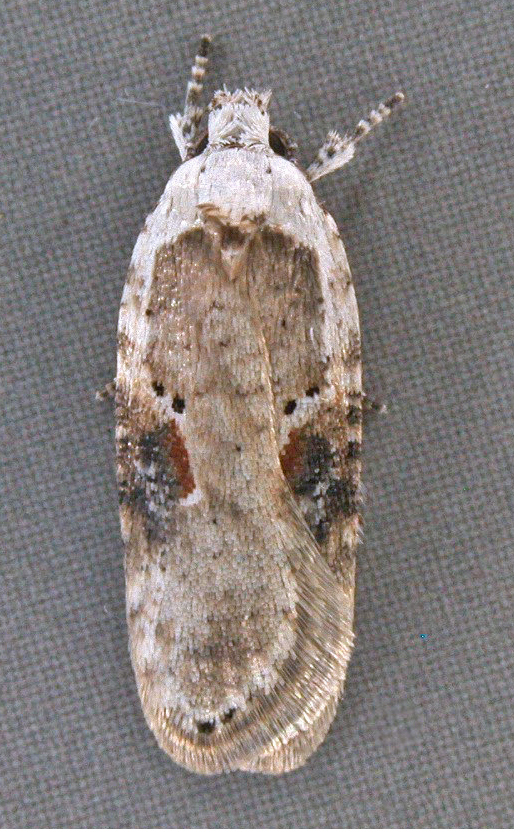 Agonopterix alstroemeriana, Aberdovey, North Wales, July 2006